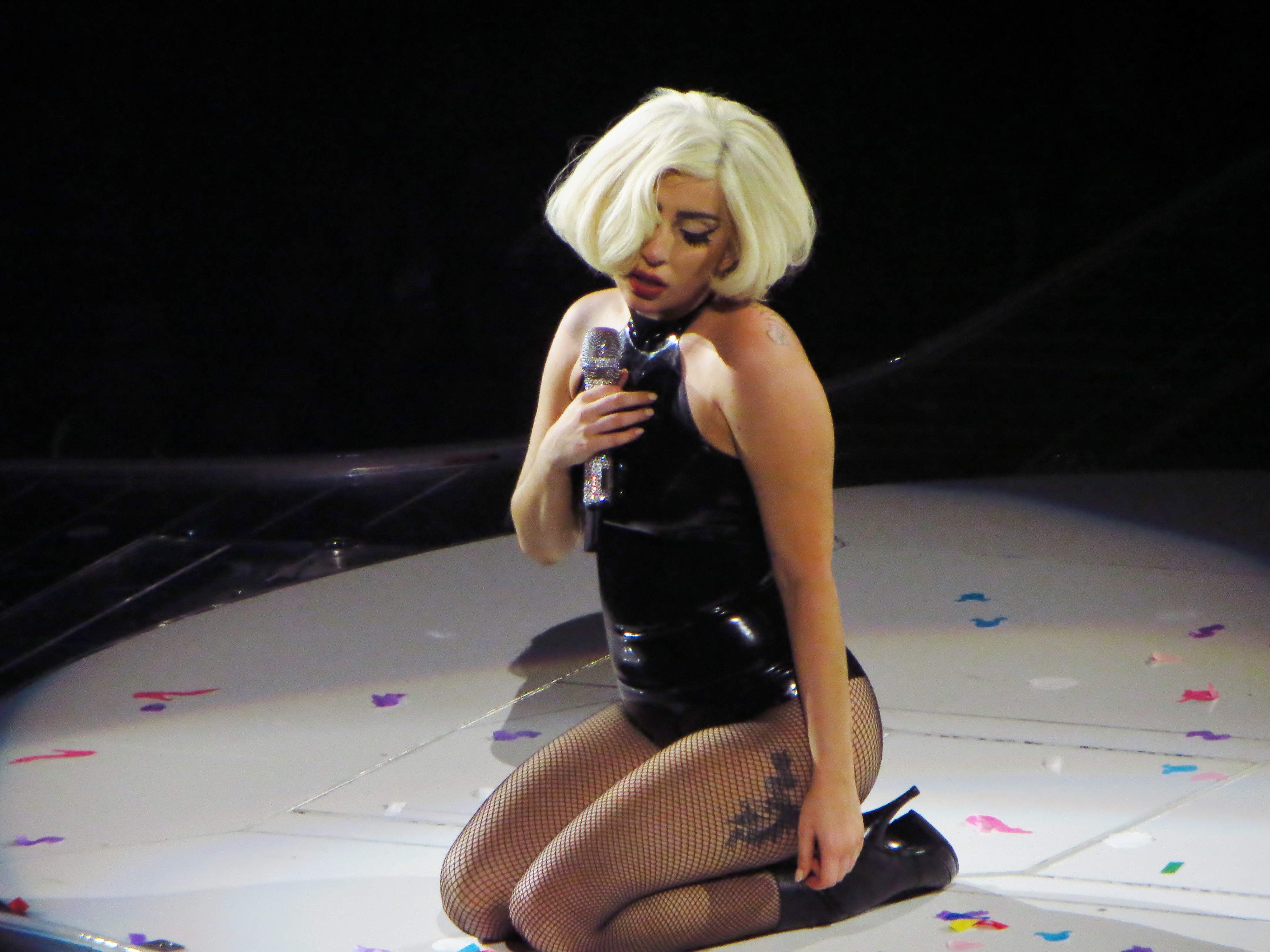 Lady Gaga, ARTPOP Ball Tour, Bell Center, Montréal, 2 July 2014 (60) Gaga performing on ArtRave: The Artpop Ball tour